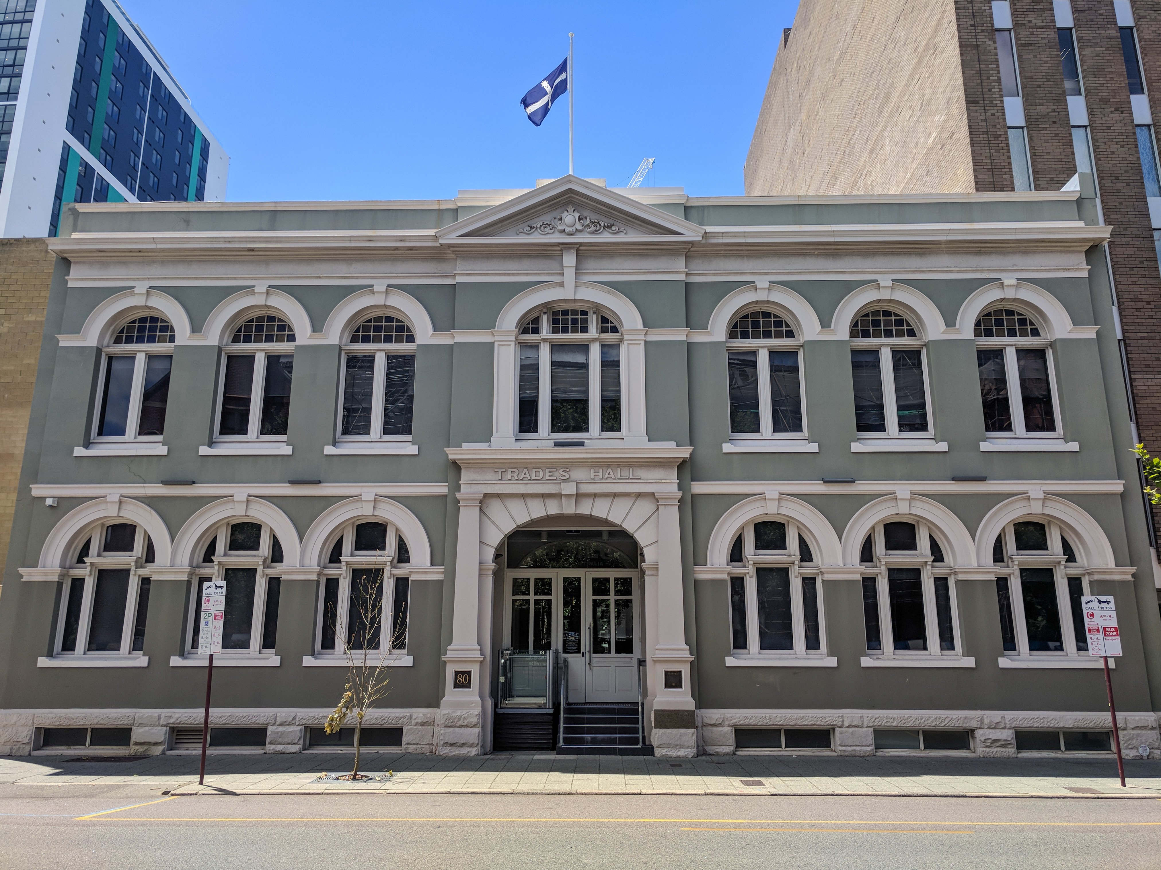 Trades Hall building at 80 Beaufort Street, Perth